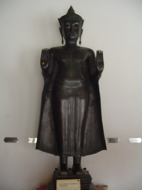 "A standing Buddha, in the attitude of calming the ocean, in the style of the Ayutthaya Period. Found at Phetchaburi." (statue caption) At the Marble Temple.